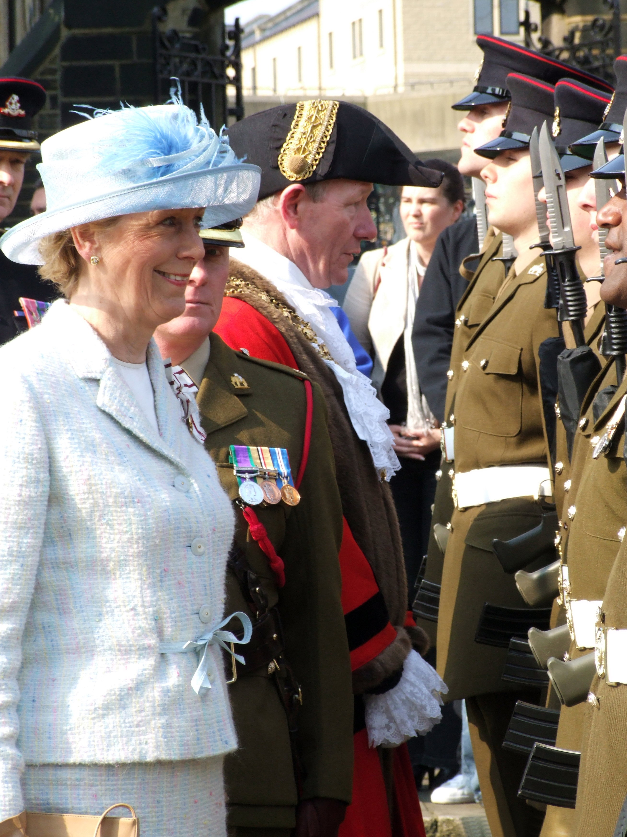 Dr Ingrid Roscoe, Lord Lieutenant of West Yorkshire, England inspecting soldiers of the 3rd Battalion (Duke of Wellington's) of the Yorkshire Regiment, at Halifax Parish Church on 31 March 2007 at the laying up ceremony of the Duke of Wellington's Regiment (West Riding) Regimental Colours